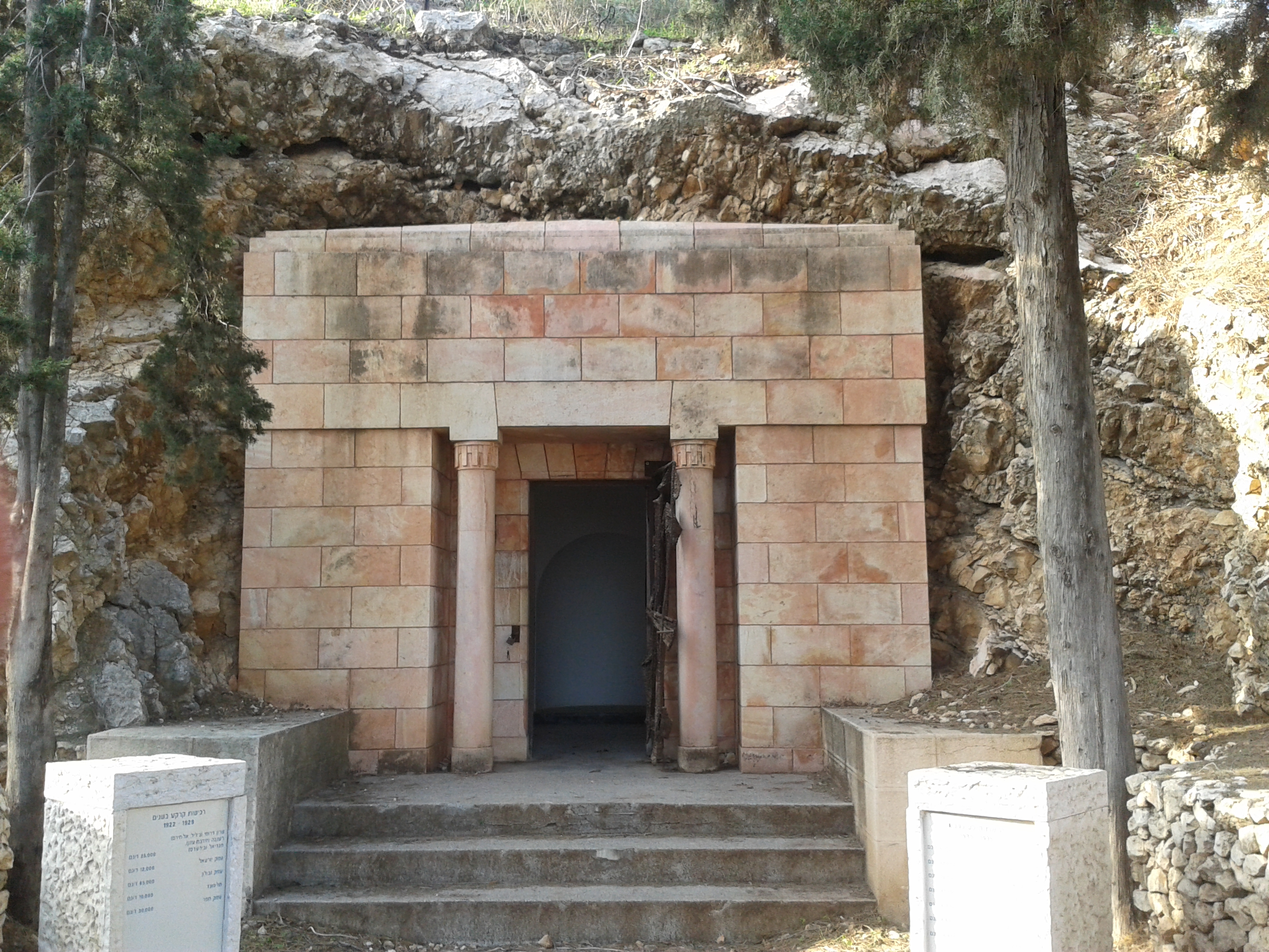 אחוזת הקבר של יהושע ואולגה חנקין צלע הר הגלבוע, מעל מעין חרוד